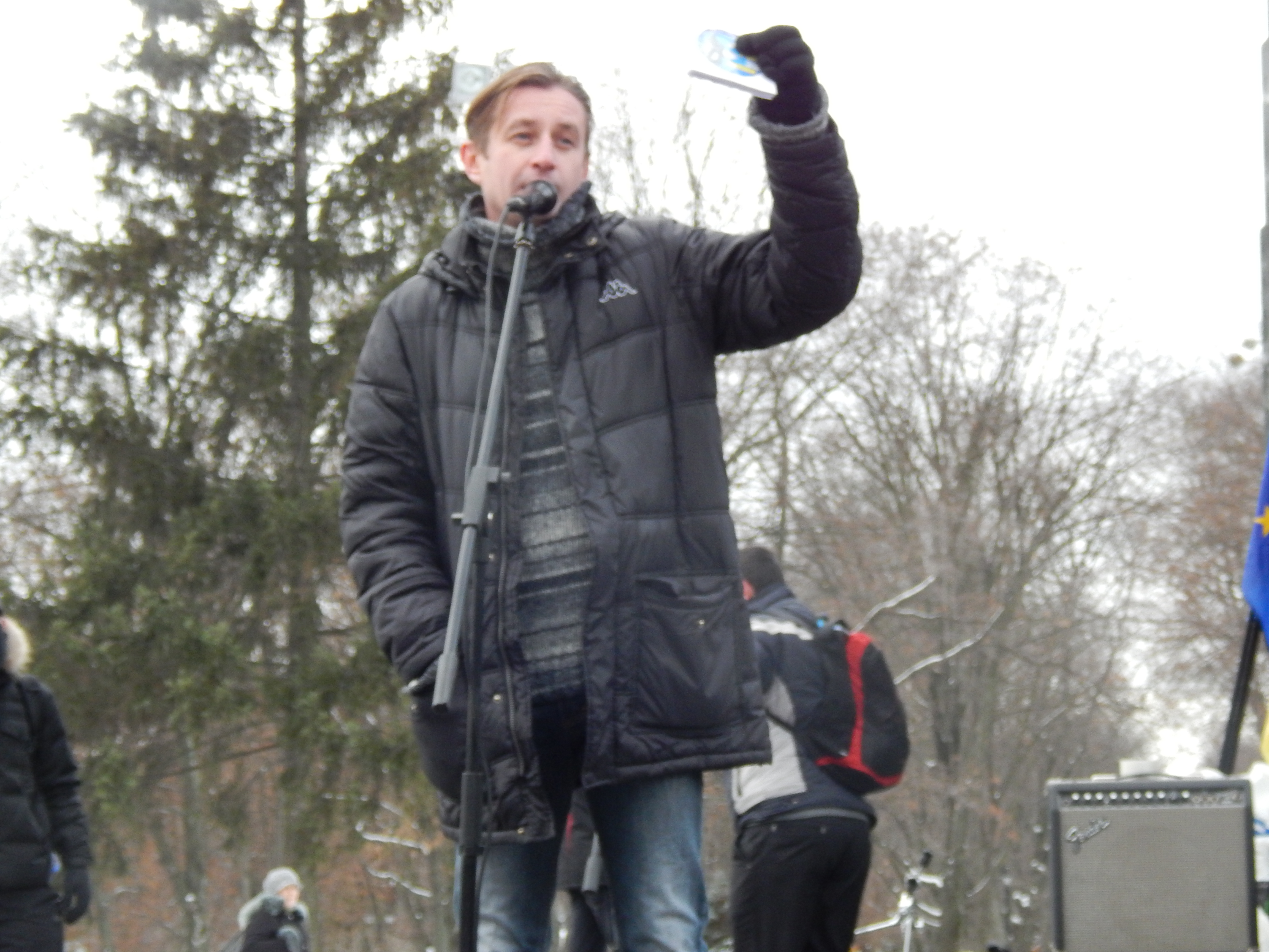 Euromaydan Rock for change. Sergey Zhadan at a rally in Kharkiv.